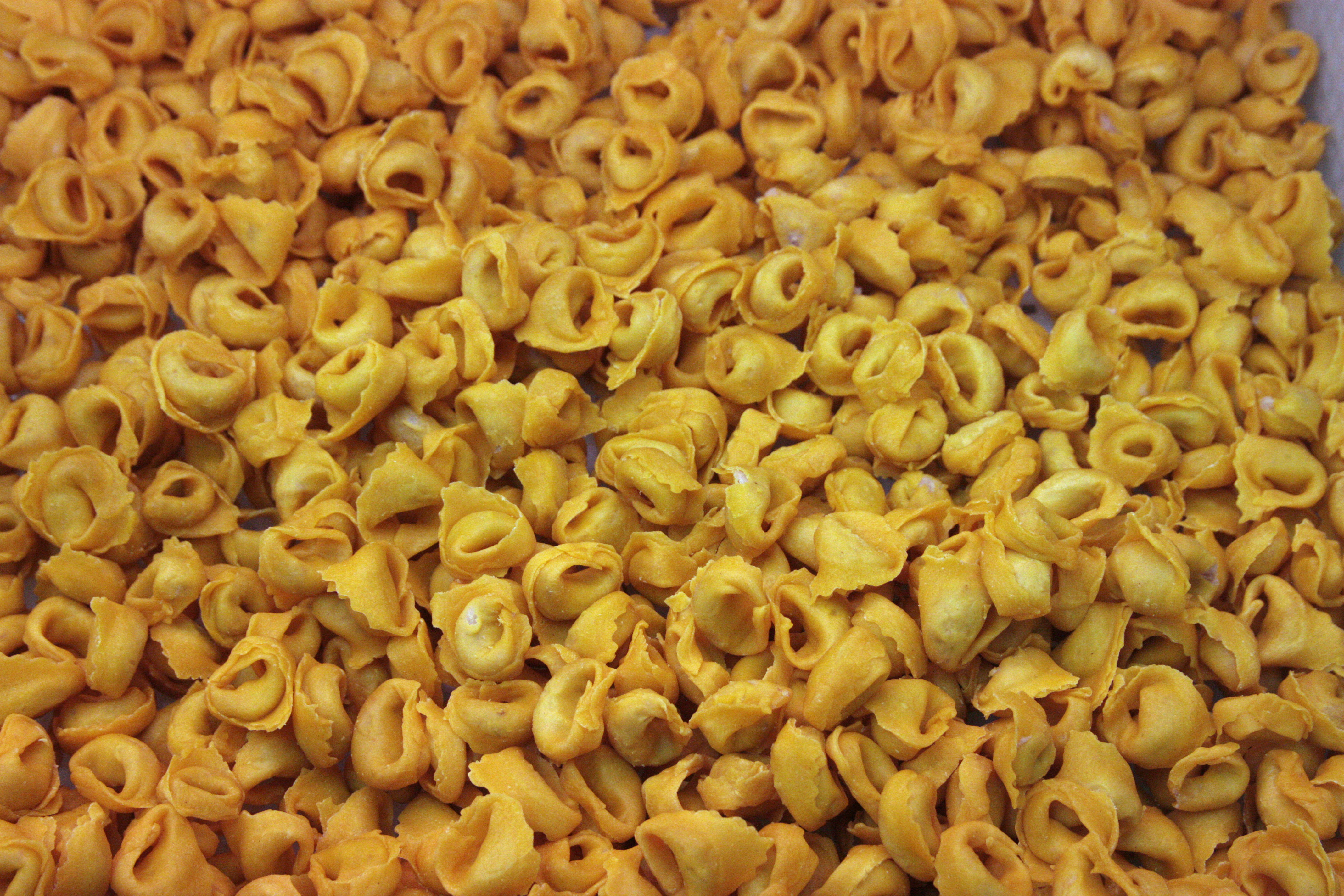 Tortellini, a typical dish of Modena.